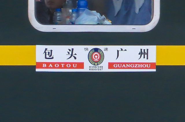 Finally captured the "Big Bus" on Beijing-Guangzhou Railway!